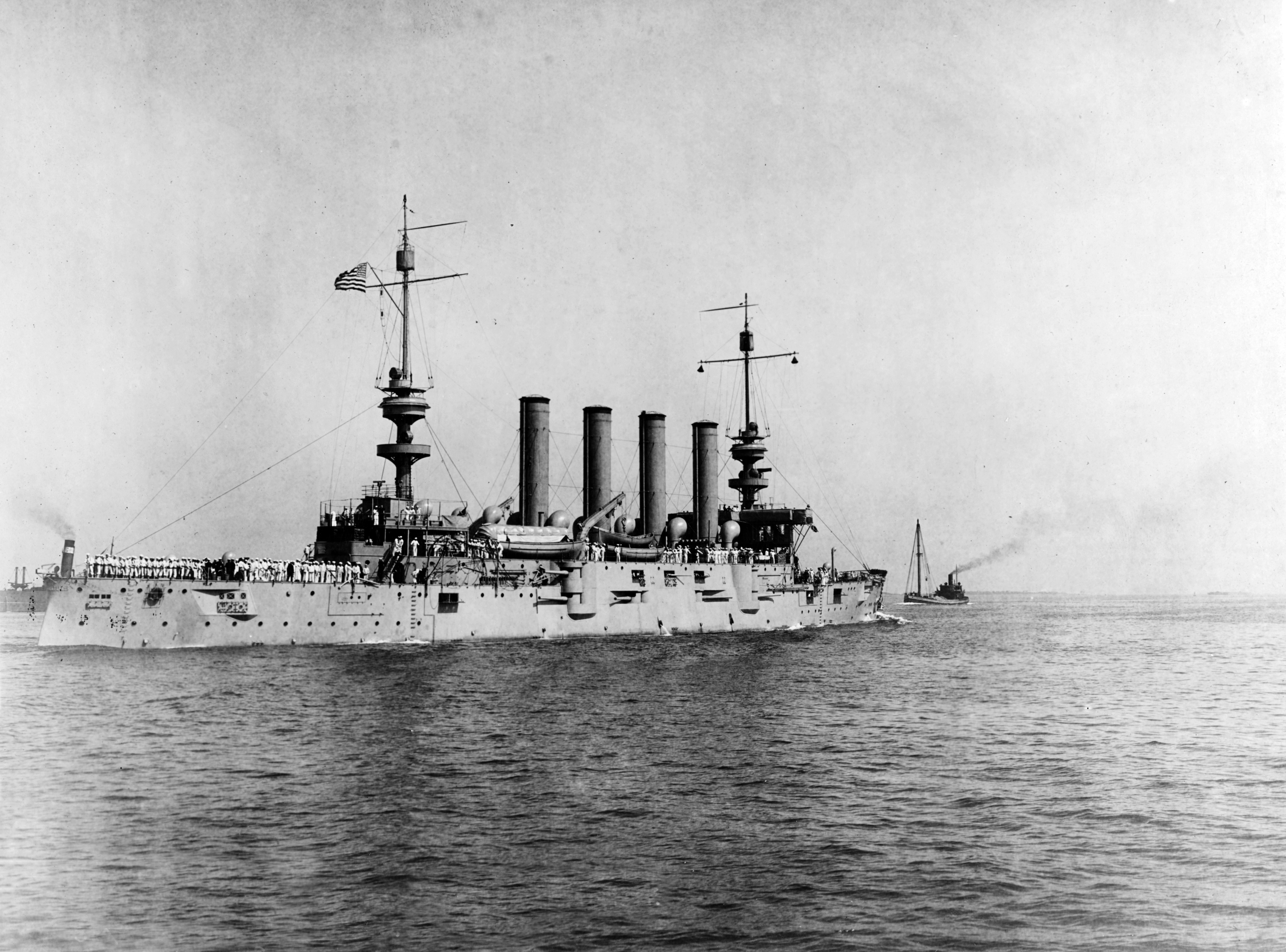 USS St. Louis (C-20) off the Boston Navy Yard, Massachusetts